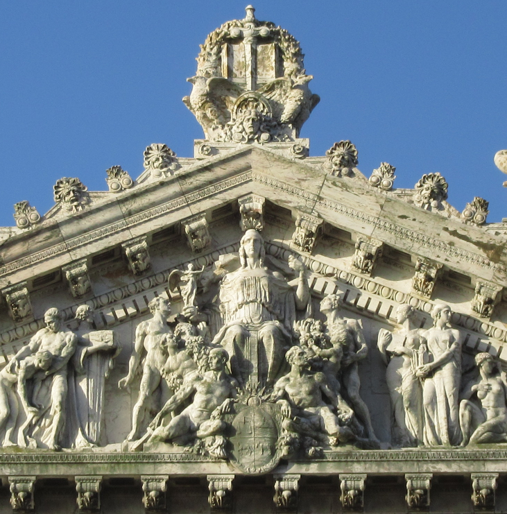 Allegorical representation of Uruguay in the Legislative Palace